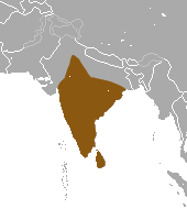 Ruddy Mongoose (Herpestes smithii) range